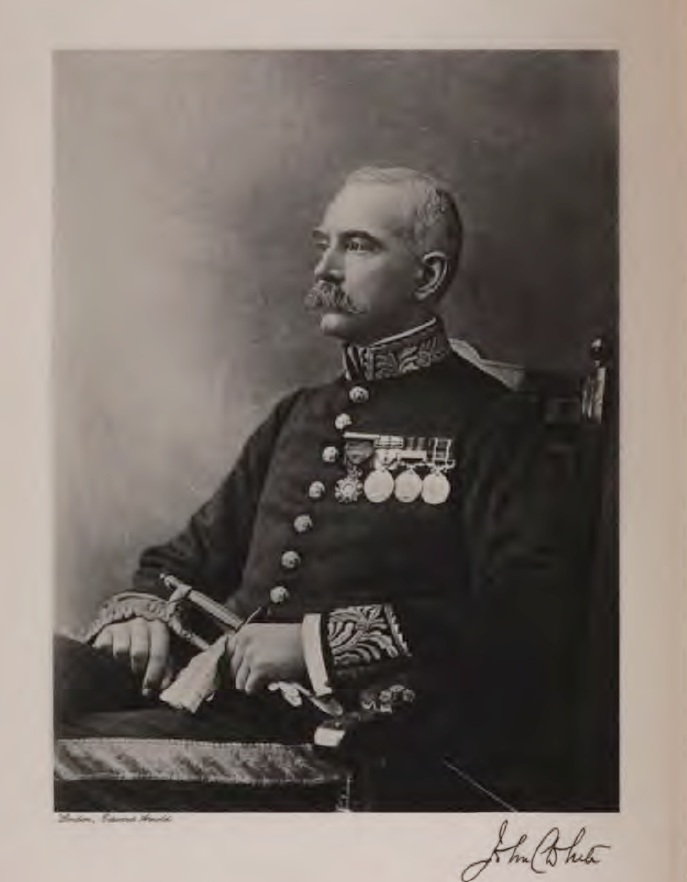 Photograph of John Claude White, first Political Officer of Sikkim, c. 1908